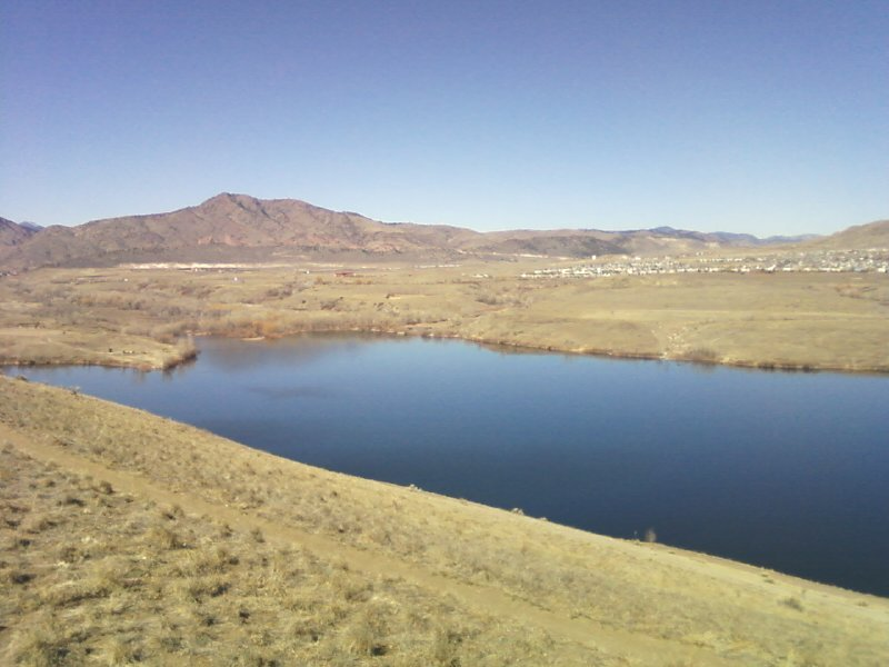 Bear Creek Reservoir and Mount Morrison as view from Bear Creek Trail on Mt. Carbon in Bear Creek Lake Park.